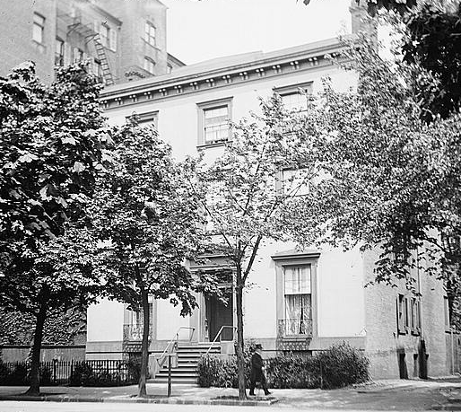 Blair House, in Washington DC, pictured between 1918 and 1920